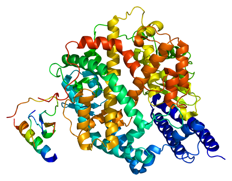 Structure of the ACE2 protein. Based on PyMOL rendering of PDB 1r42.